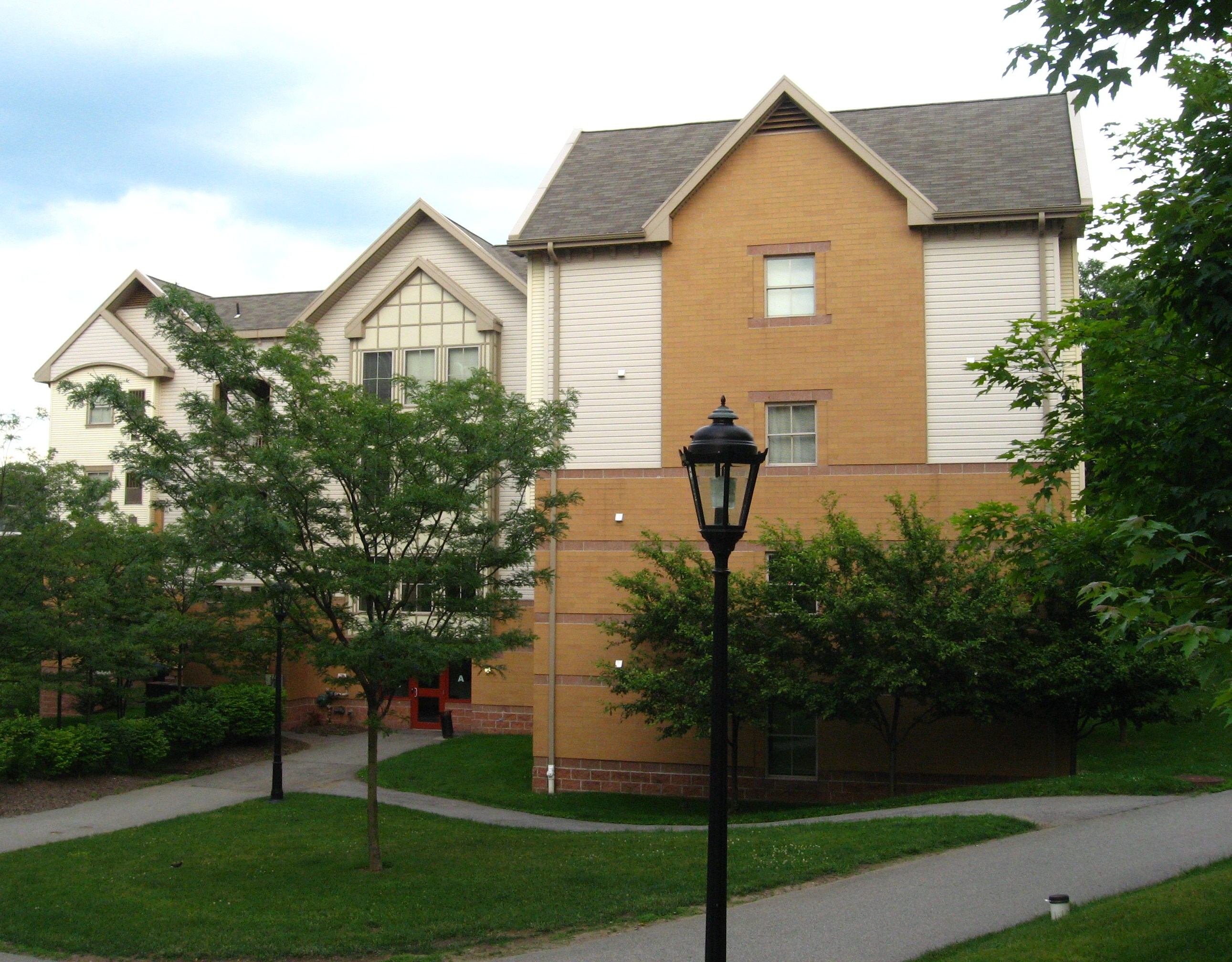 Bouquet Gardens apartments at University of Pittsburgh 40°26′25.1″N 79°57′15.9″W / 40.440306°N 79.954417°W